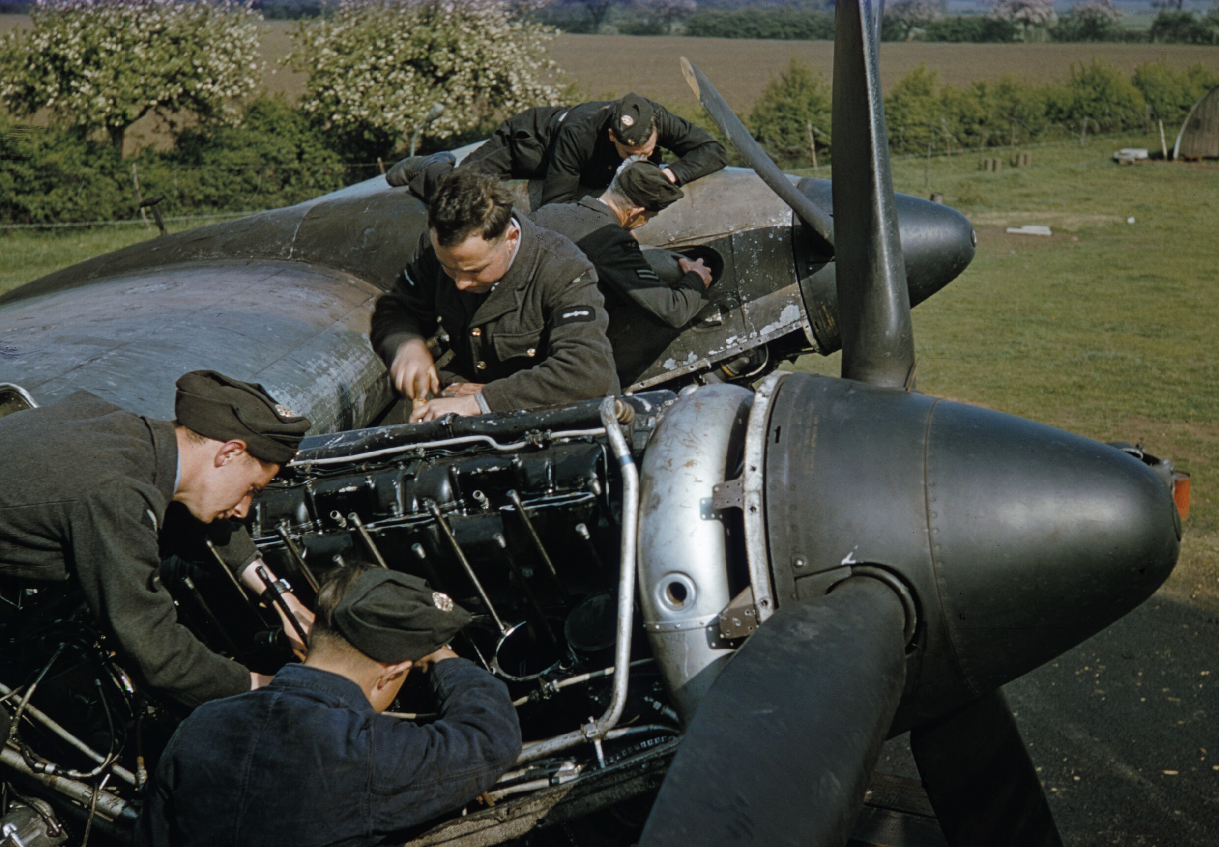 Mechanics at work on the Merlin engines of a Handley Page Halifax Mk II of No. 35 Squadron at Linton-on-Ouse, June 1942. Mechanics at work on the Merlin engines of a Handley Page Halifax II of No. 35 Squadron, Royal Air Force at Linton-on-Ouse.